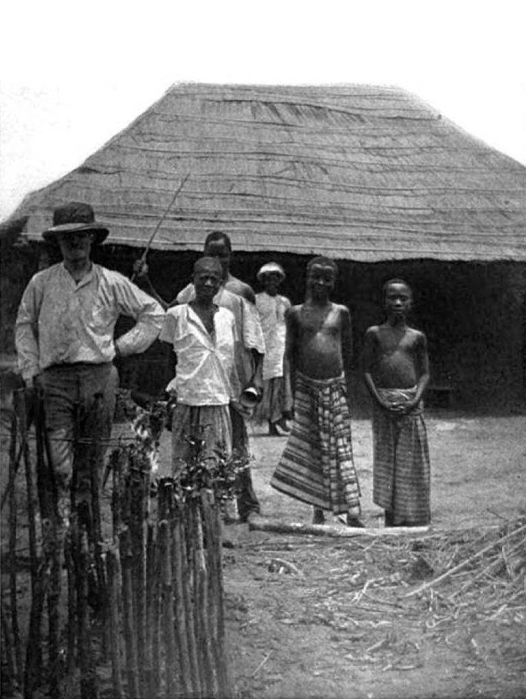 Samuel P Verner in Congo in 1902, Batetela tribe